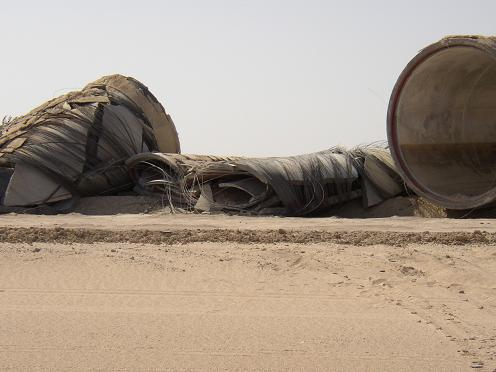 Collapsed pipe due to corrosion